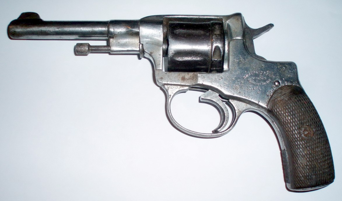 Nagant Revolver Model 1895 (Russian 'Soldier' single action version) Specifications: - Chamber: 7.62 mm Nagant - Weight unloaded: 750 g - Length: 230 mm - Barrel length: 114 mm - Magazine Capacity: 7 rounds This revolver was designet in Belgium by Nagant brothers in the late 1880s /early 1890s, and was adopted by numerous countries, including Sweden and Poland. The major user and manufacturer was Russia (and later Soviet Union). Russian government adapted Nagant Revolver in 1895 and local production Nagant Revolver started in 1898.